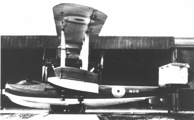 Photograph of the Fairey Atalanta